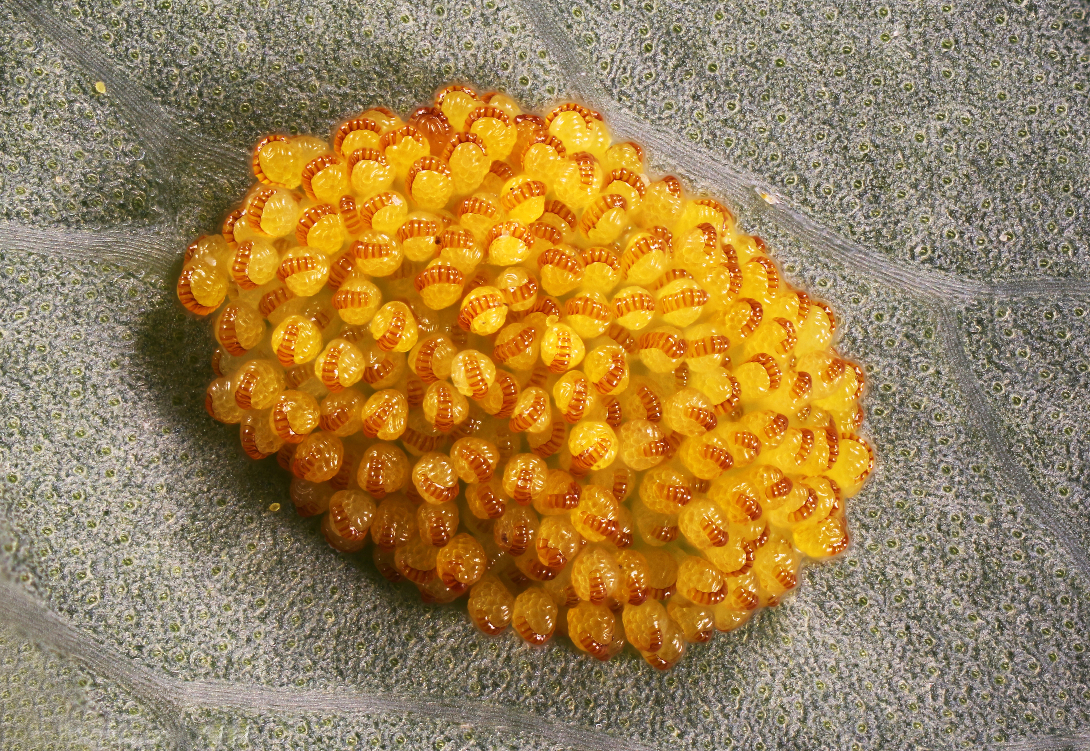 Fern Polypodium aureum Sorus Sorus length: 2 mm Sorus is composed of many sporangia that contain spores. You can see rings similar to worms. There are numerous frond stomata around the sorus. Light microscopy, incident light Total magnification – 50x, focus stacking - 166 images